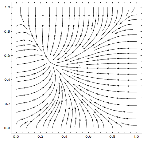 Gradient field